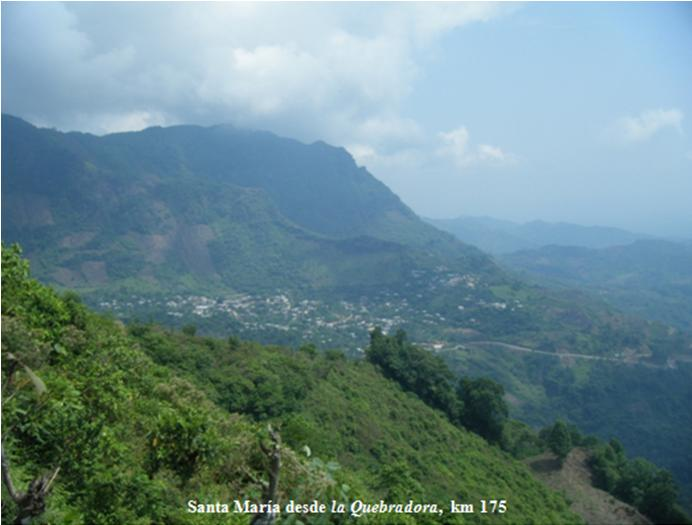 Santa María desde la Quebradora